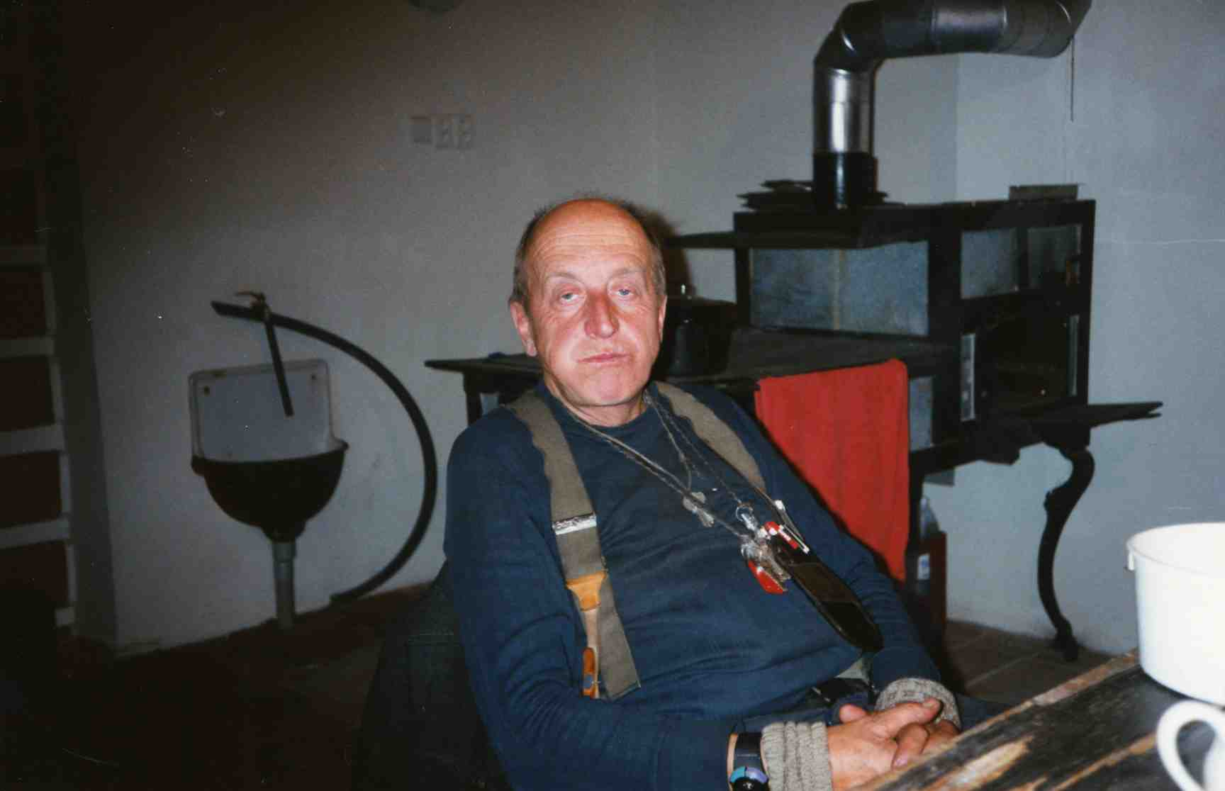 Gustav Ginzel